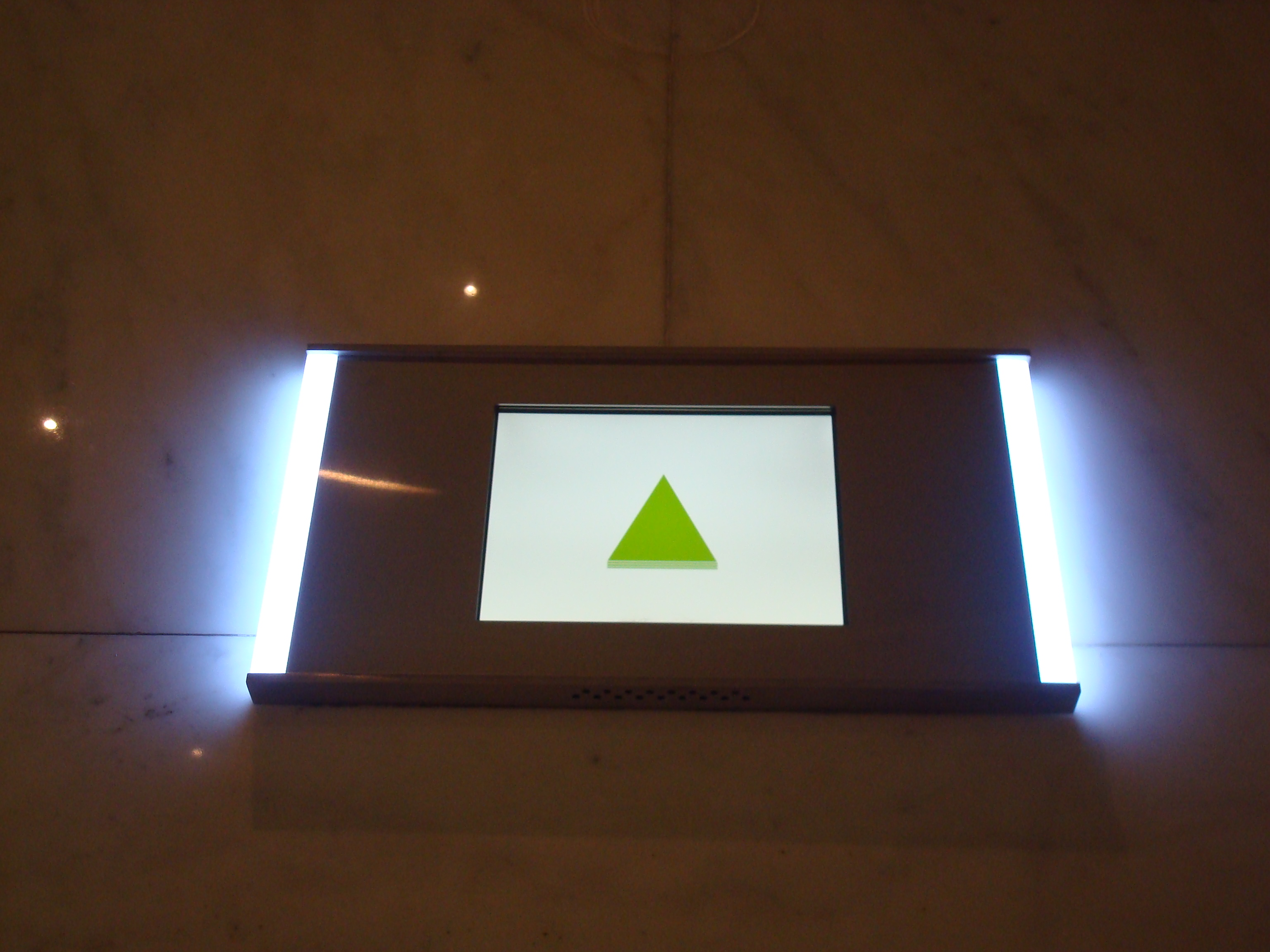 LCD elevator indicators at First Canadian Place, Toronto, Ontario, Canada